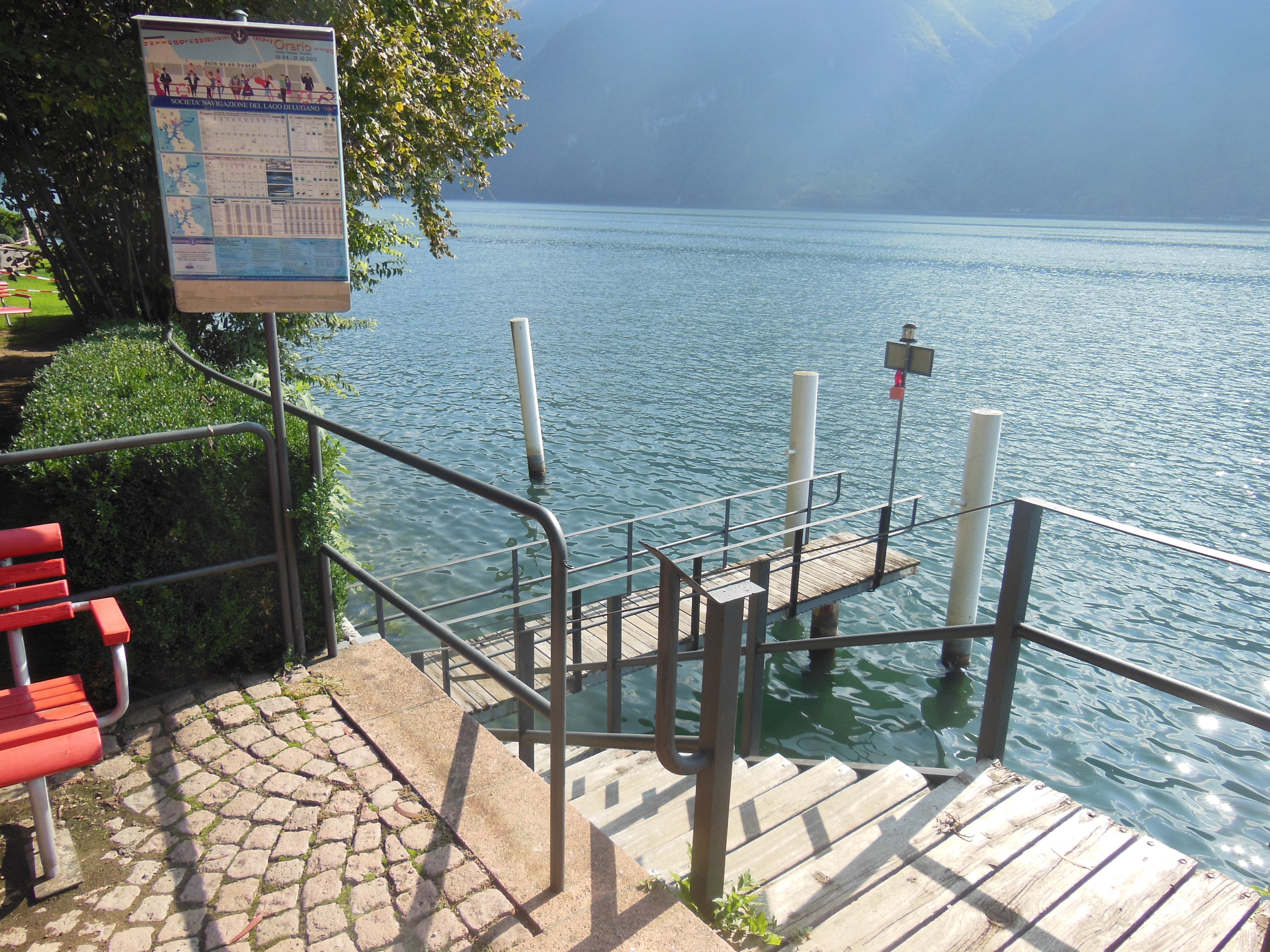 The landing stage of the Società Navigazione del Lago di Lugano at the Helenium Museum (Museo delle Culture). For more information, see wikipedia articles Società Navigazione del Lago di Lugano and Museo delle Culture.